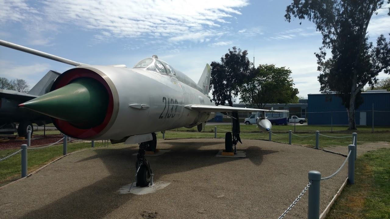 Photograph of a Mikoyan-Gurevich MiG-21 Soviet-designed jet fighter with Czech markings on display at Castle Air Museum, California in April 2018